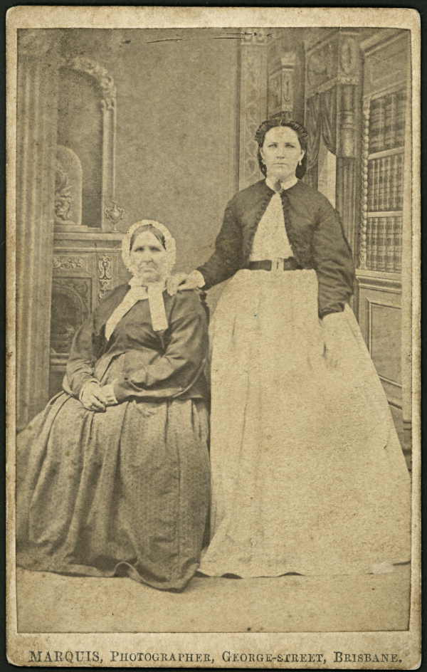 Women's clothing -- Queensland -- History. Photo by Daniel Marquis approx 1866-1879.